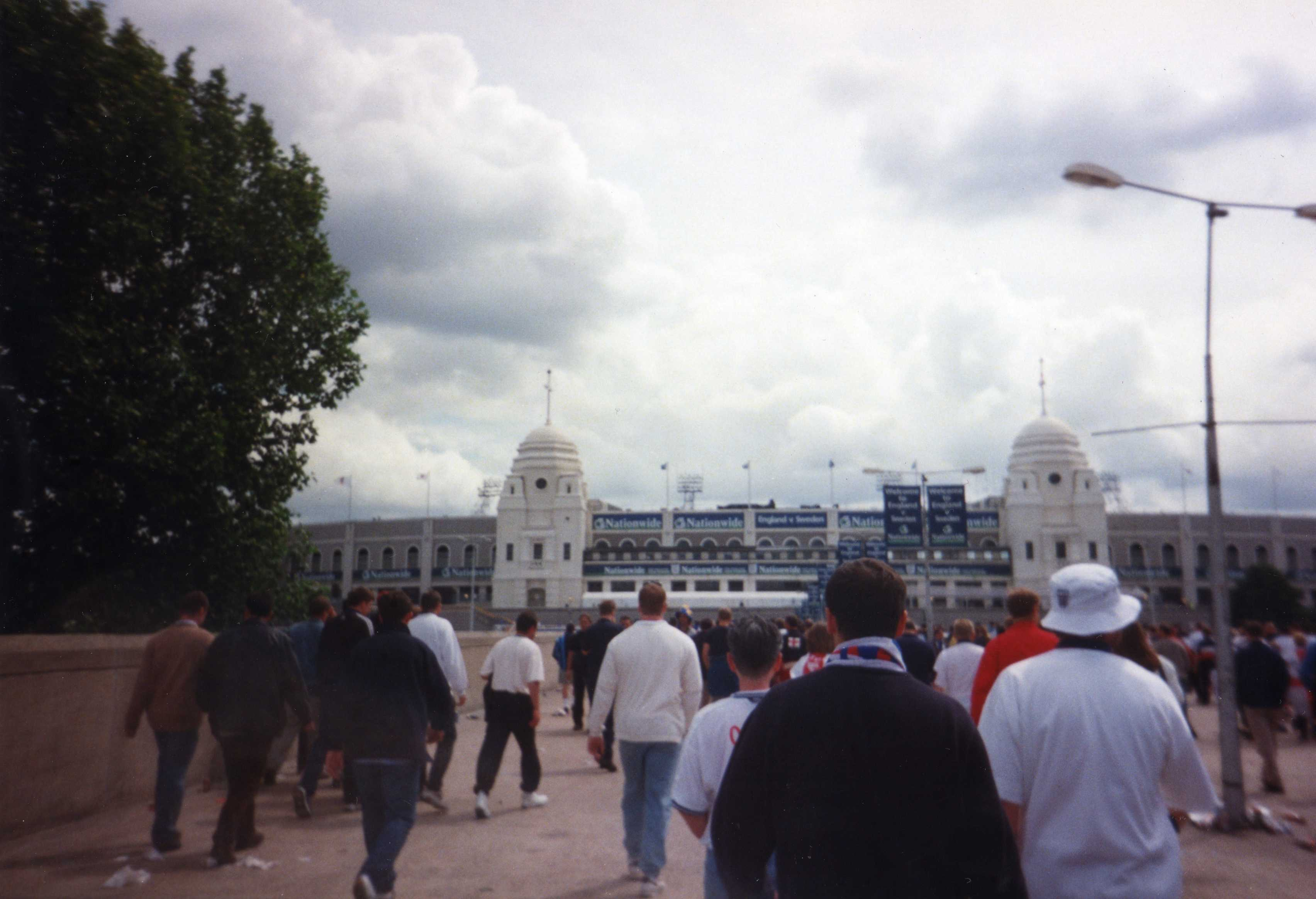 Old Wembley Stadium (before redevelopment), at England v Sweden, 5 June 1999